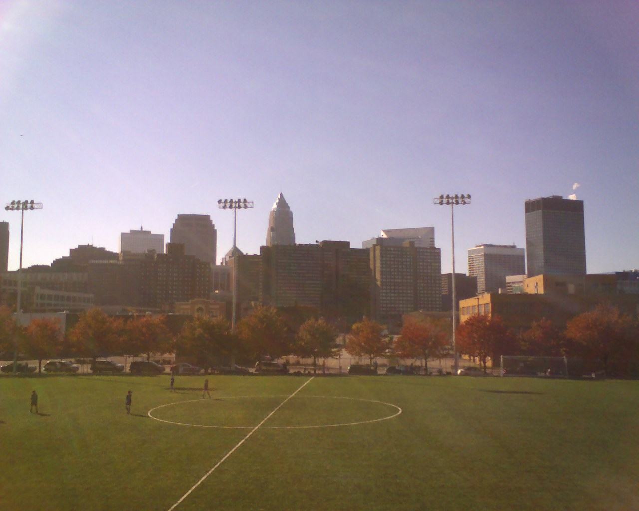 Cleveland State University's Krenzler Field